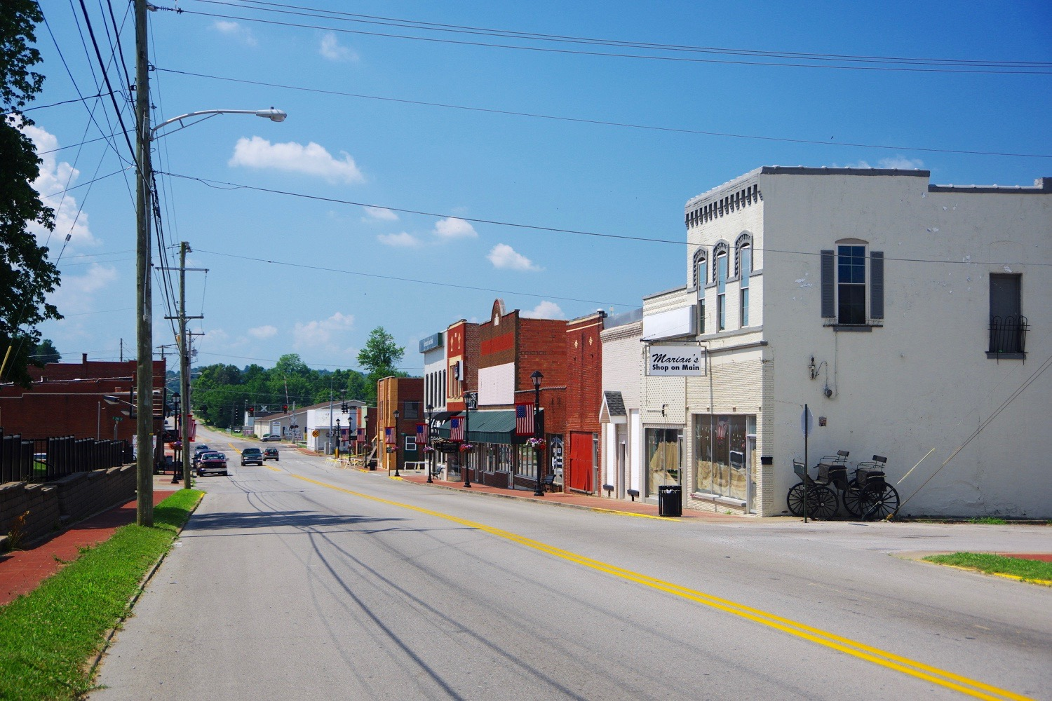 Main Street (U.S. Route 231) in Beaver Dam, Kentucky, United States.